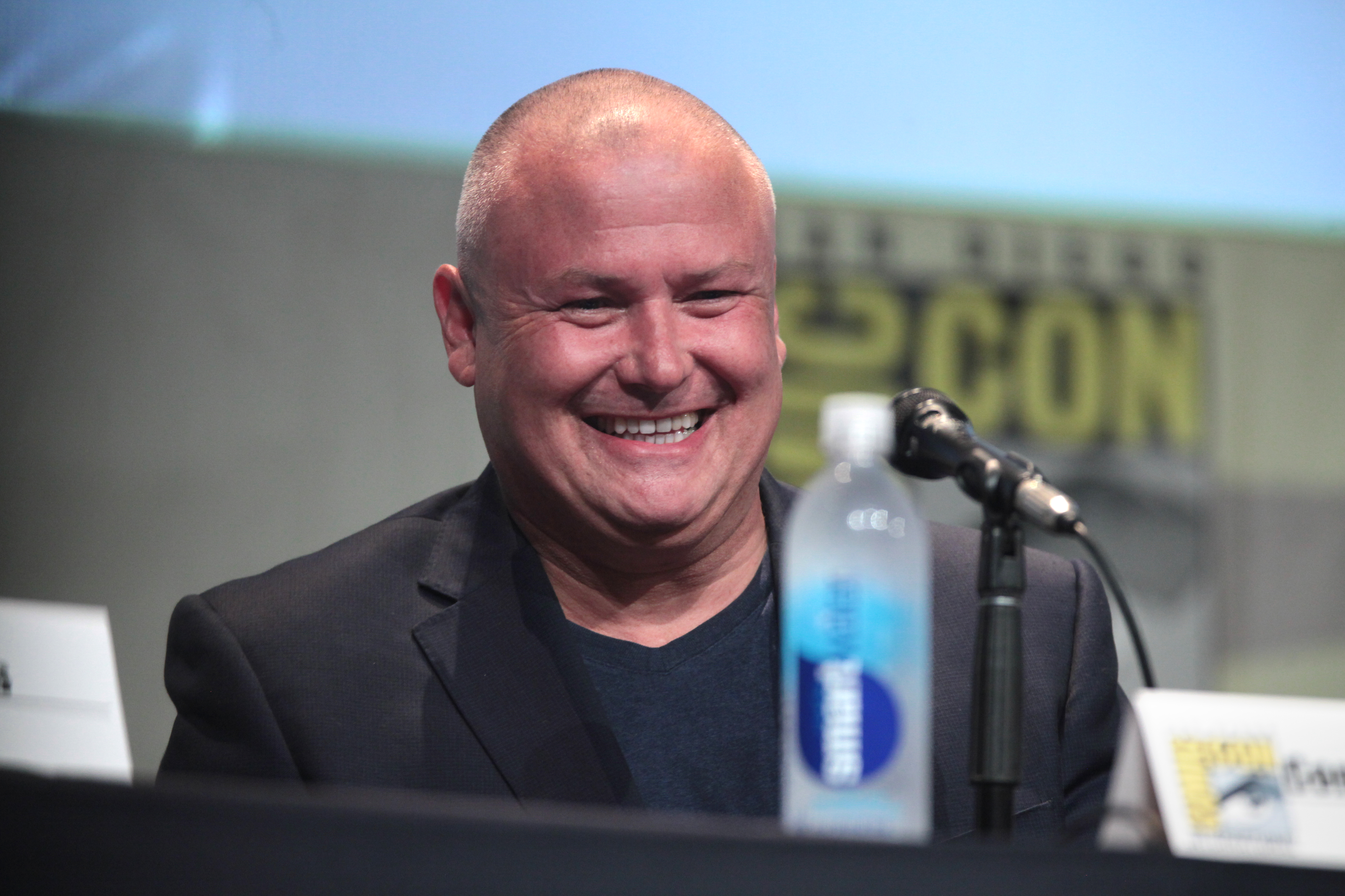 Conleth Hill speaking at the 2015 San Diego Comic Con International, for "Game of Thrones", at the San Diego Convention Center in San Diego, California.